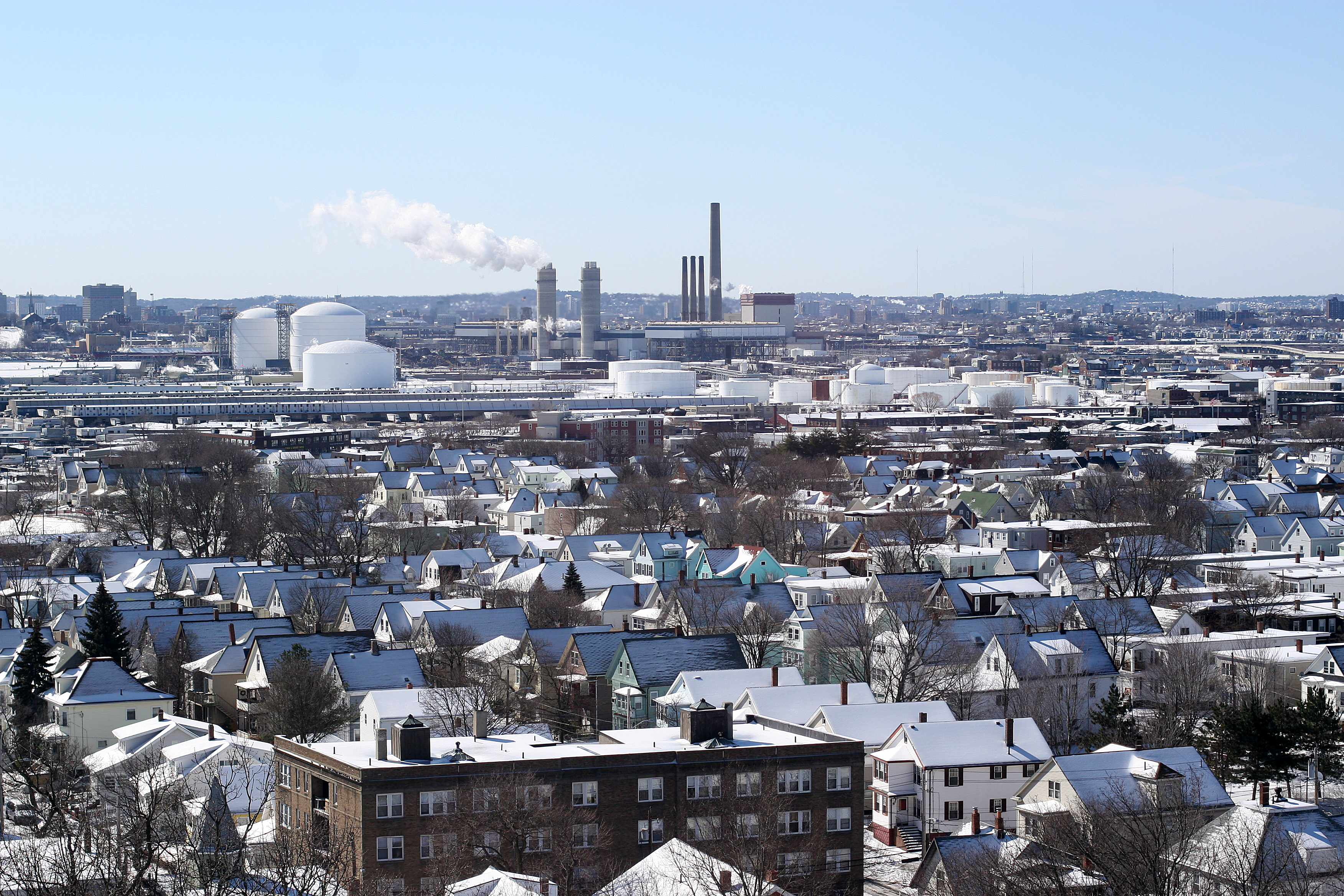 Everett, Massachusetts in winter from the Whidden Hospital. Note the densely packed houses with snow on the rooftops.